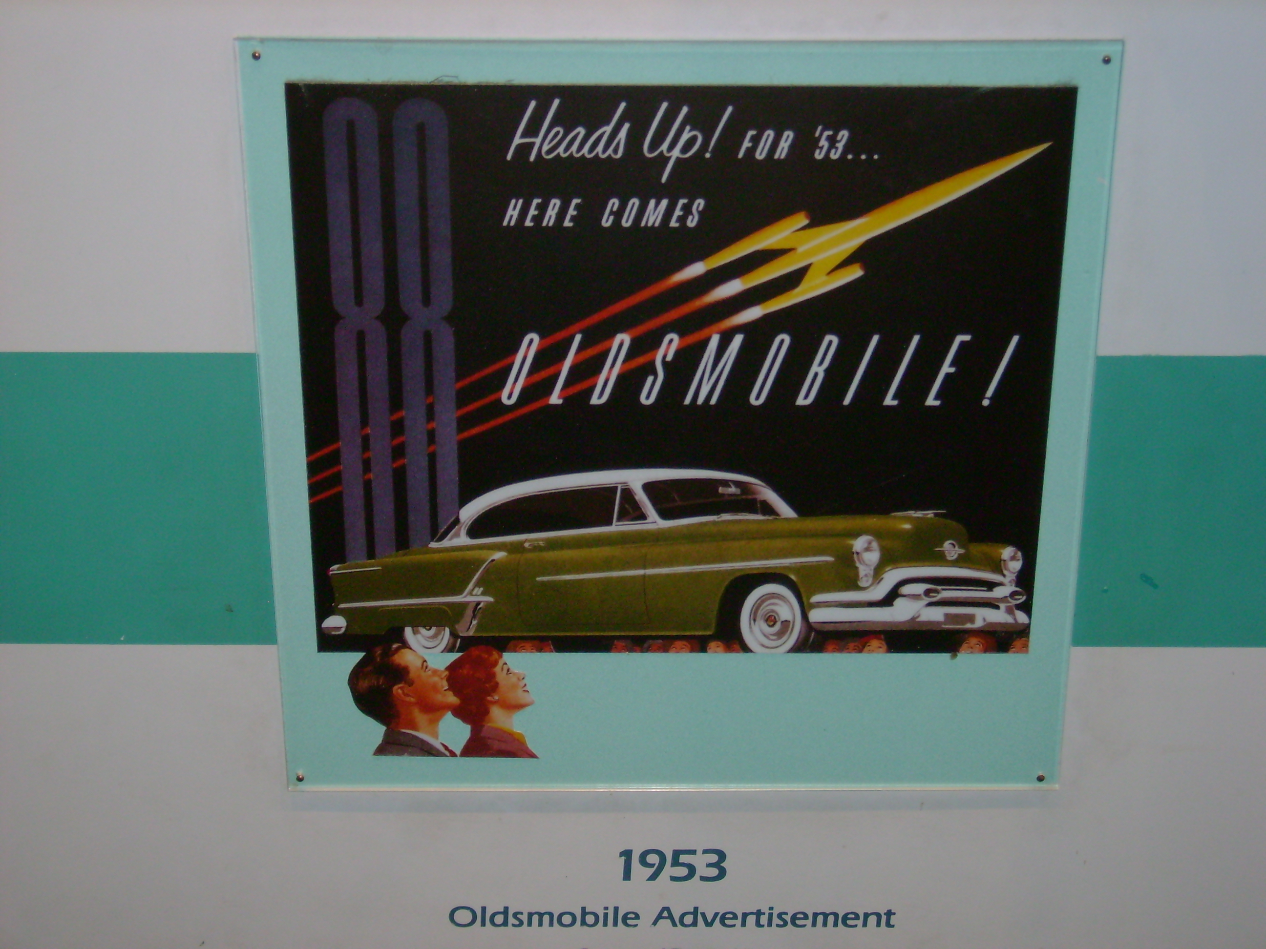 1953 Oldsmobile Advertisement at the Air & Space Museum in Washington D.C.; photographed in July '07.